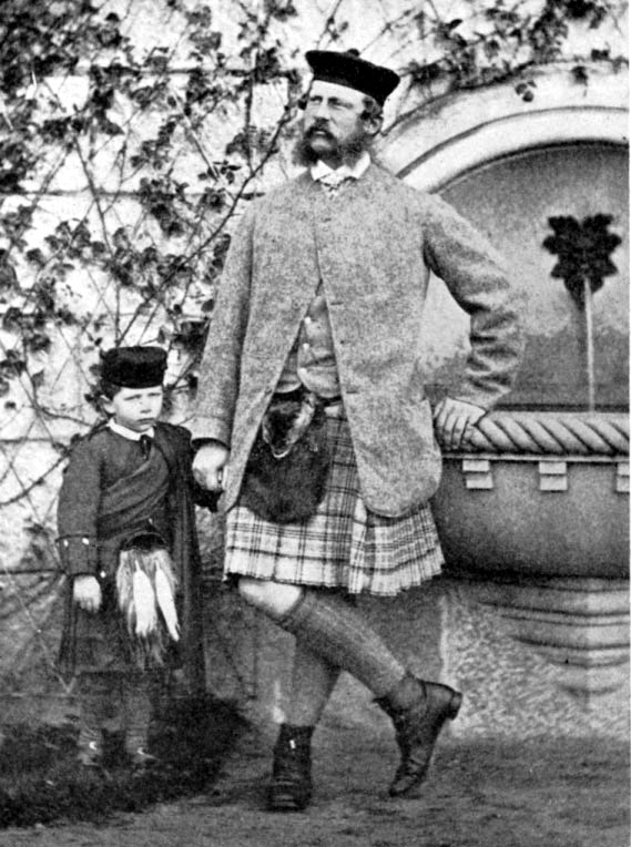 The Crown Prince of Prussia and Prince Wilhelm II. - Balmoral Castle. - Oct. 1863.